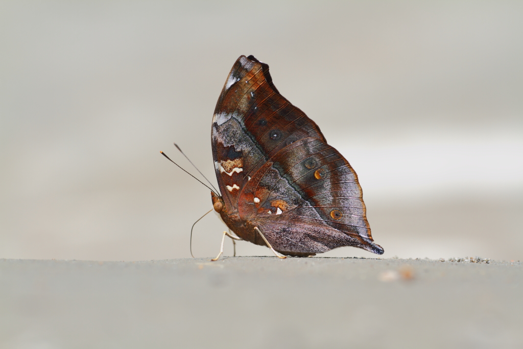 Close wing position of Doleschallia bisaltide Cramer, 1777 – Autumn Leaf